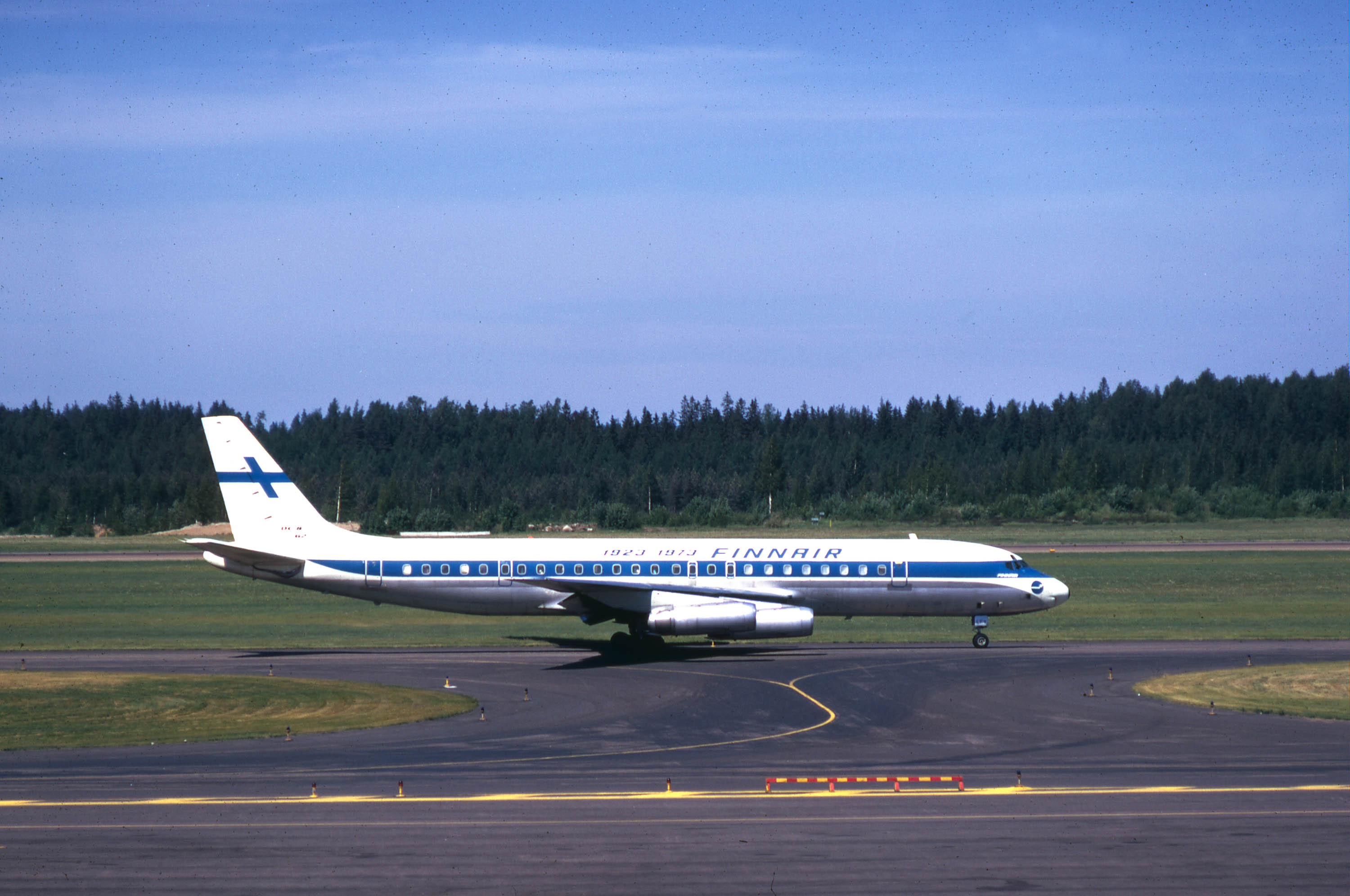 A Douglas DC-8-62 aircraft (OH-LFV) of Finnair